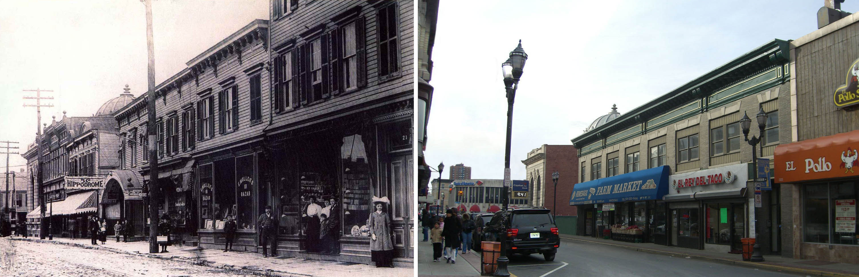 Shot of Bergenline Avenue facing south toward 32nd Street, in Union City, New Jersey, circa 1900. Taken from a municipal giveaway calendar, which was produced by the city. Right: Shot of Bergenline Avenue facing south toward 32nd Street, taken January 22, 2010 by Luigi Novi. The photo on the right was created by Luigi Novi. It is not in the public domain, and use of this file outside of the licensing terms is a copyright violation.